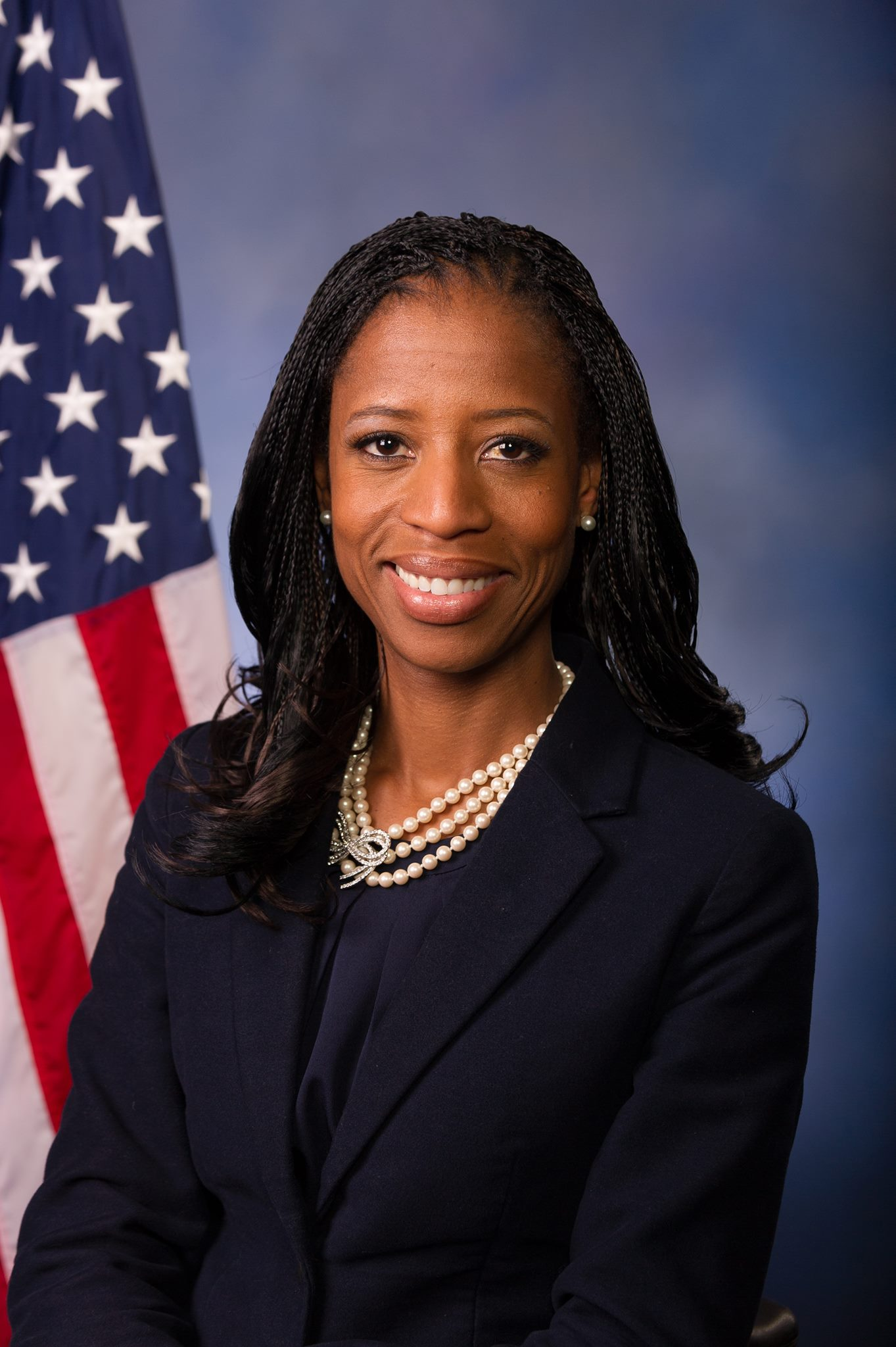 Mia Love official photo, 114th Congress